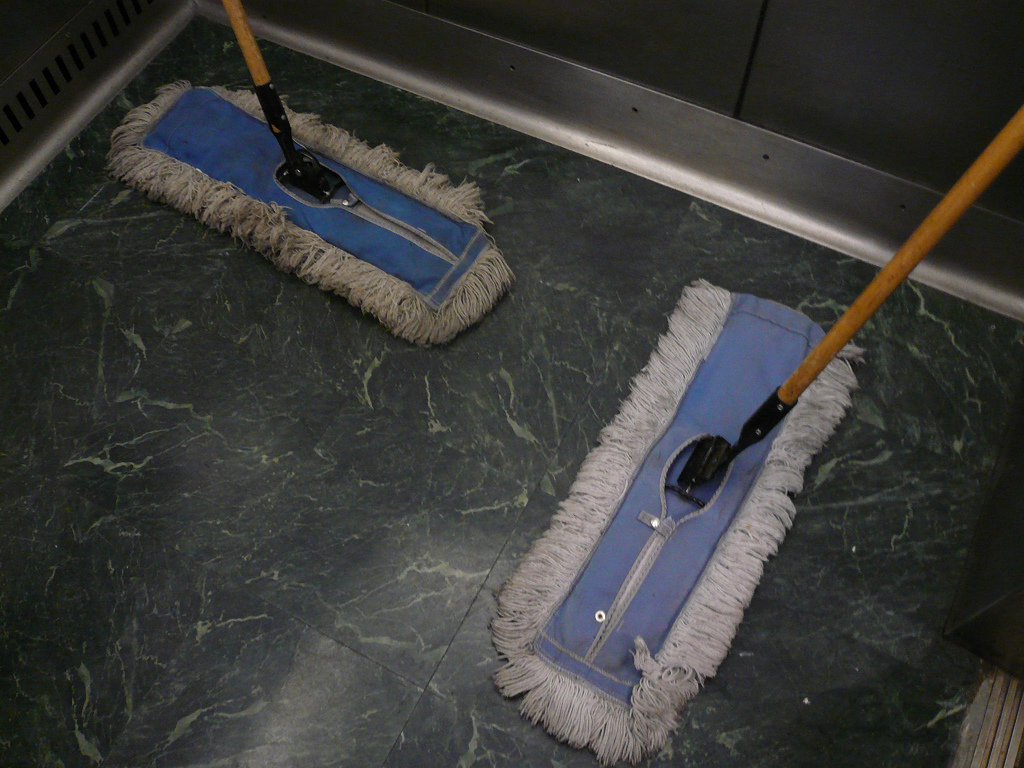 When the mobs have taken over the elevators